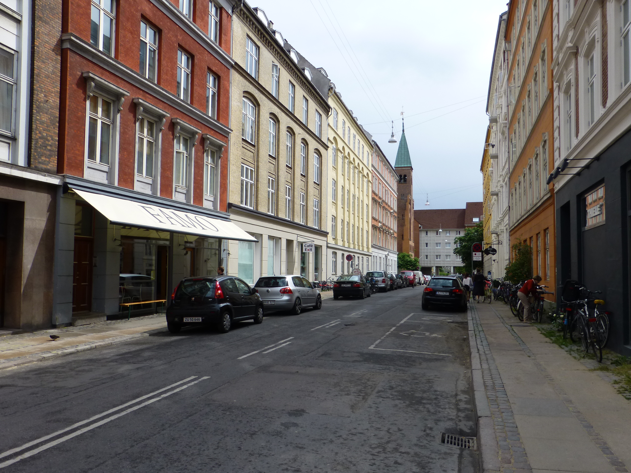 The street Saxogade in Vesterbro in Copenhagen.